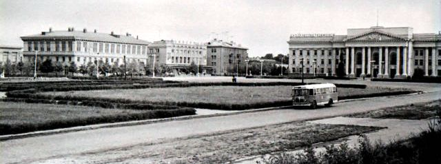 Central Square (former Lenin's Square), Musical school, Shop Sam, Public Polytechnic College in Maladzechna, Belarus